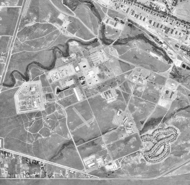 USGS orthophoto of F. E. Warren Air Force Base in Cheyenne, Wyoming, United States.